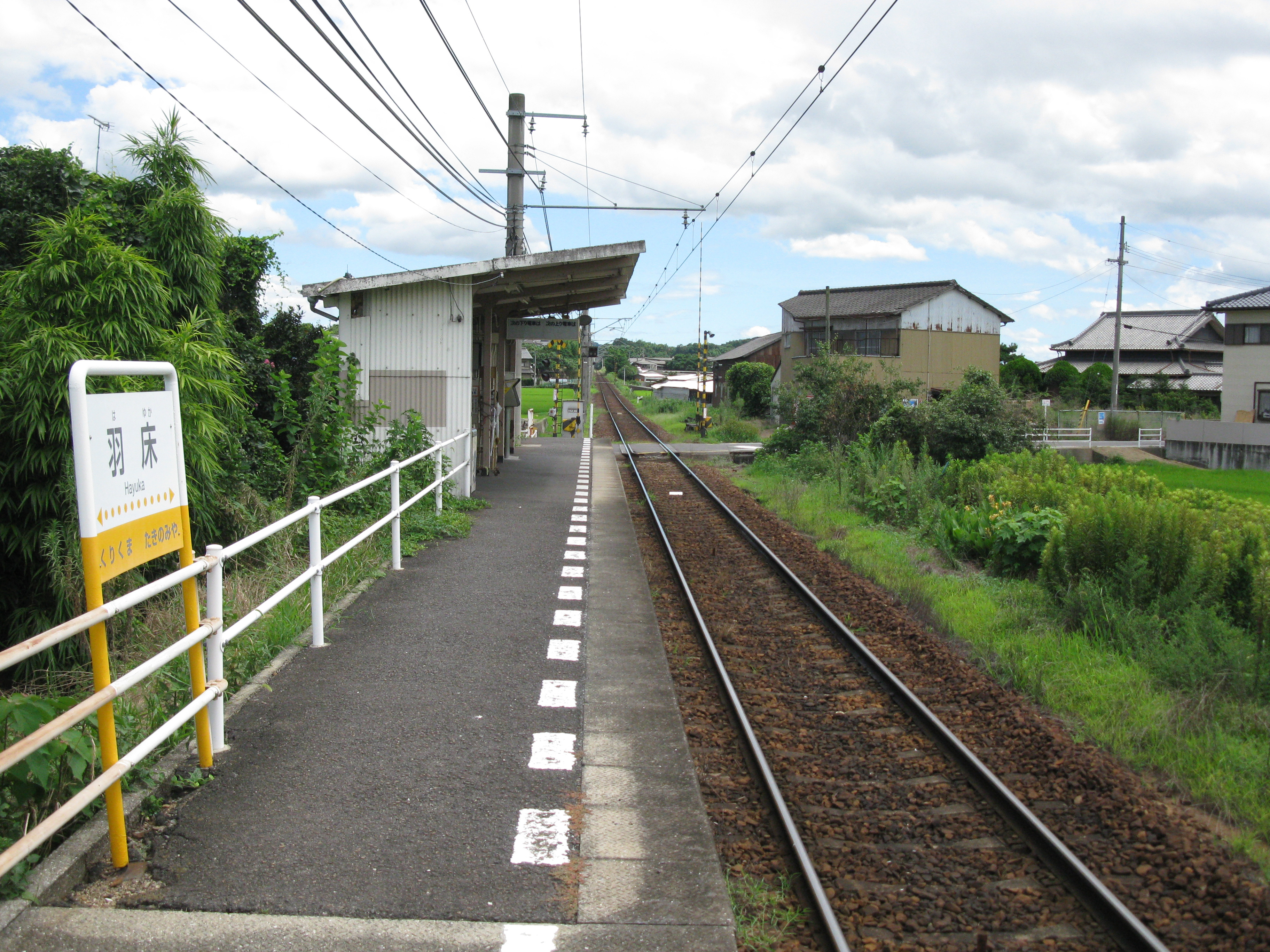 Hayuka Station platform (Takamatsu-Kotohira Electric Railroad(Kotoden) Kotohira Line)